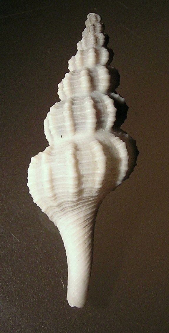 Fusinus inglorius Hadorn & Fraussen, 2006 , a spindle snail from the family Fasciolariidae; South China Sea